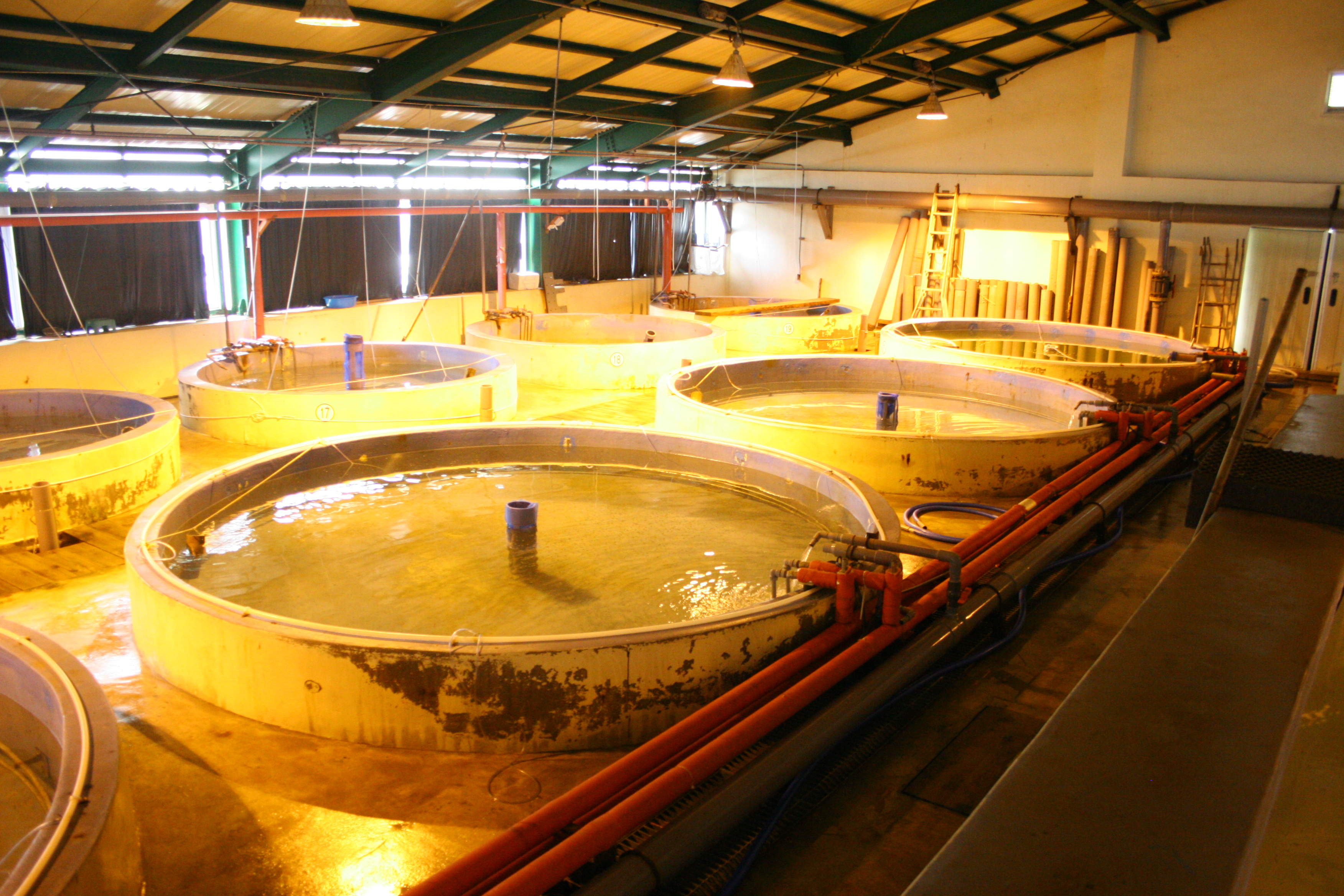 Aquaculture